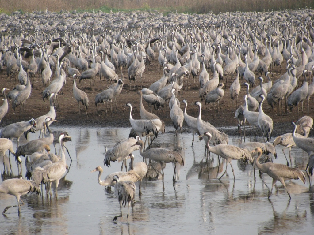 Tremendous amount of cranes